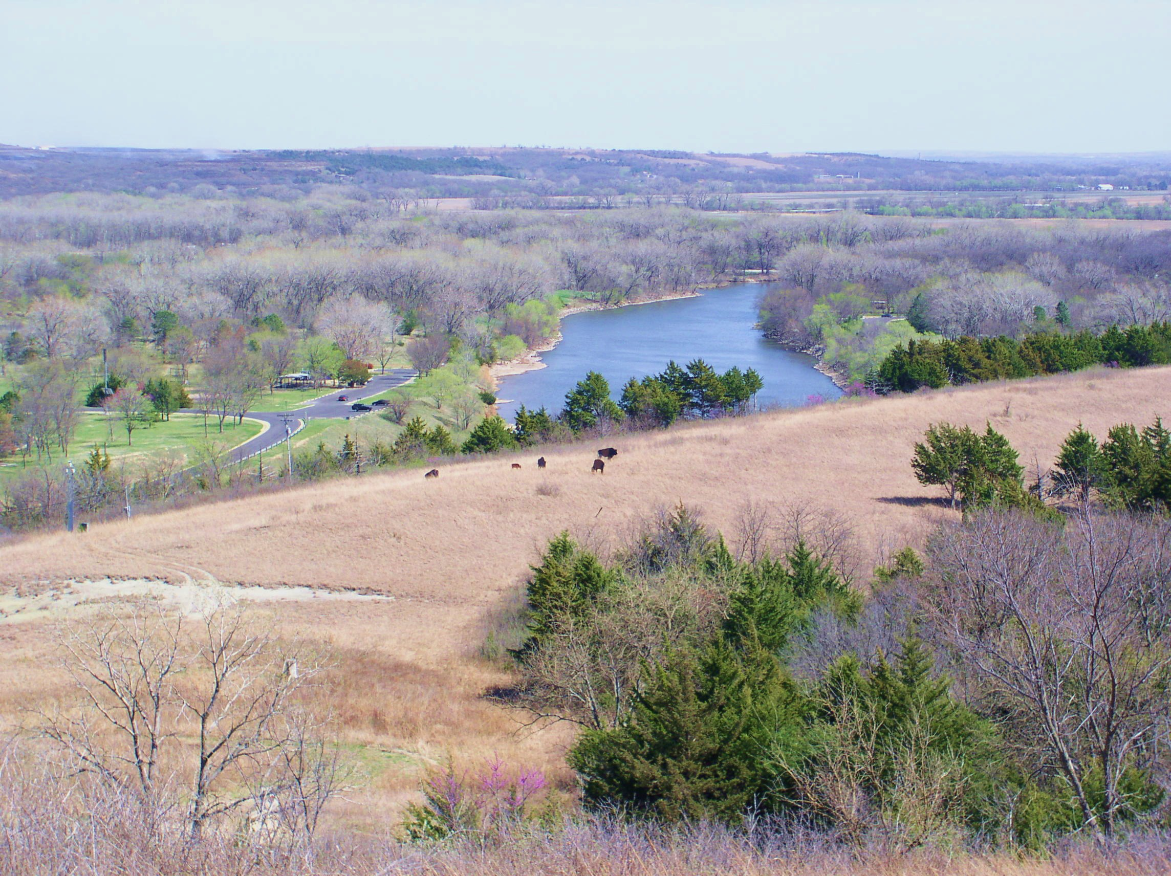 Picture facing south of the big blue River above Manhattan, Kansas